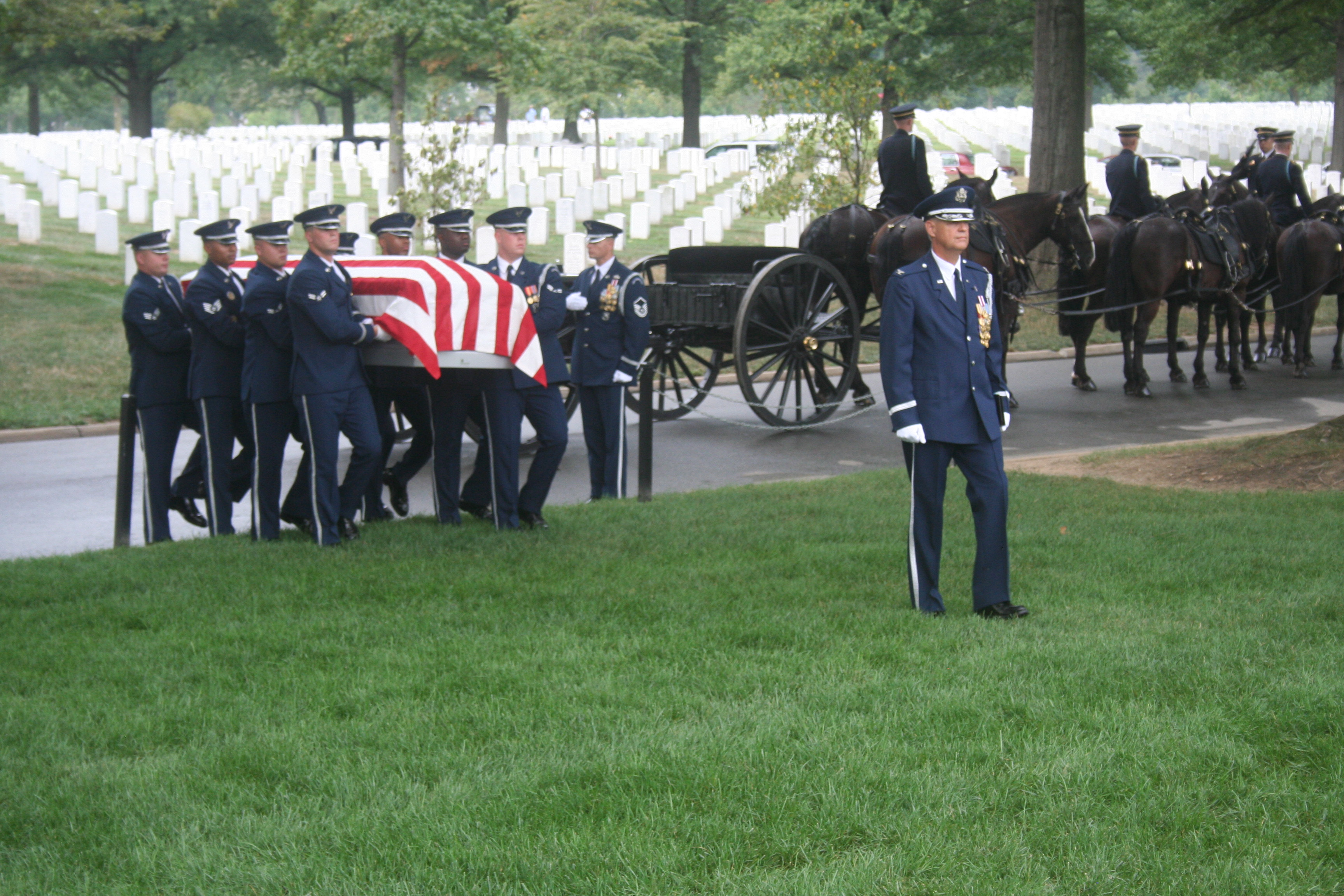 Major Aado Kommendant's burial ceremony in Arlington Aug 8th 2012